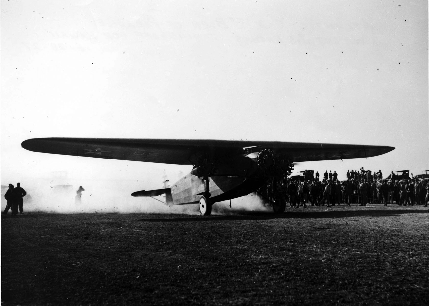 Atlantic-Fokker C-2 Bird of Paradise taking off. (U.S. Air Force photo)